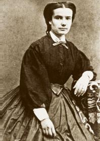 Carolina, wife of Machado de Assis.